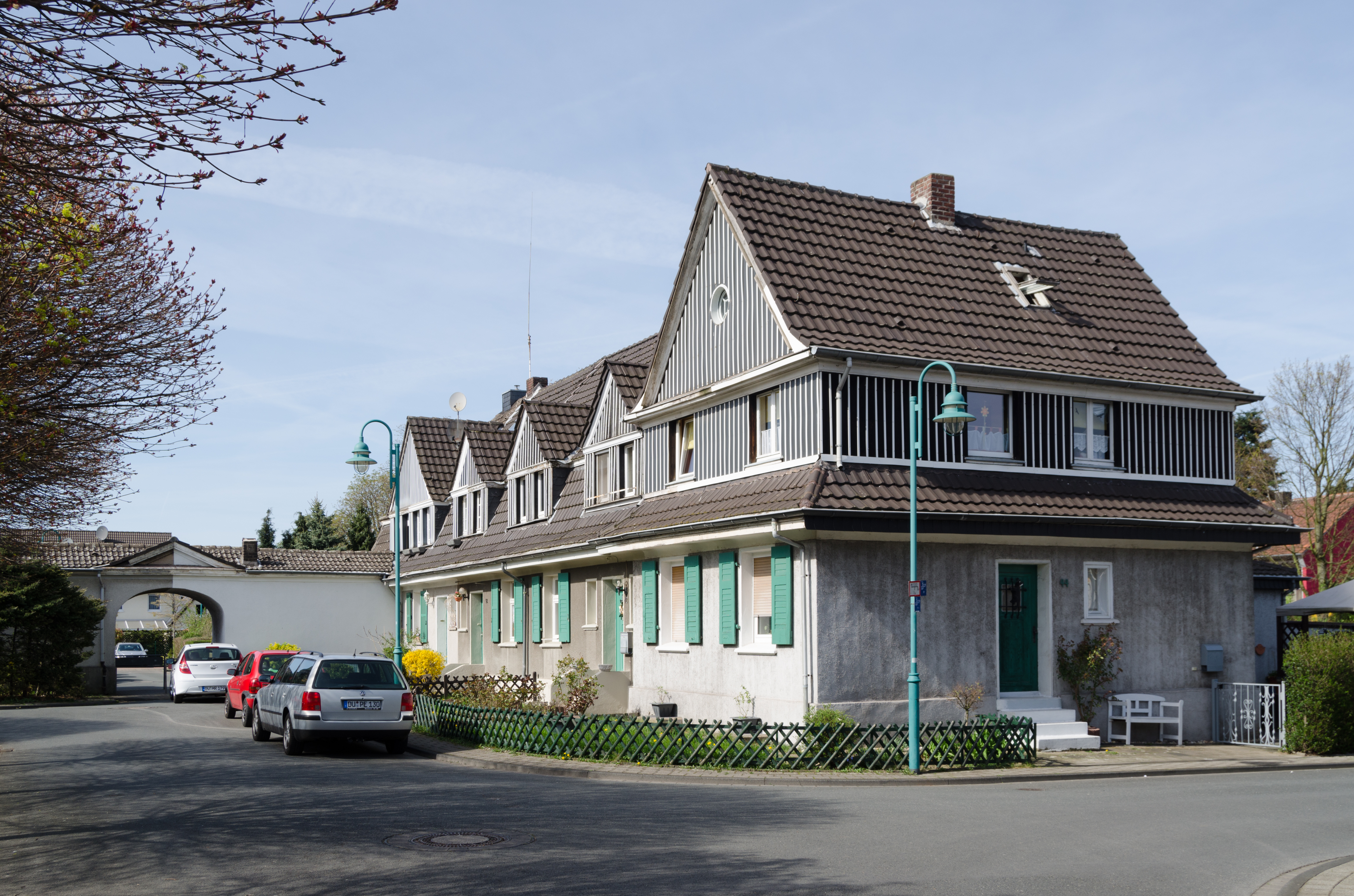 Duisburg (North Rhine-Westphalia, Germany) – borough Homberg/Ruhrort/Baerl, district Alt-Homberg – Johannenhof Colony